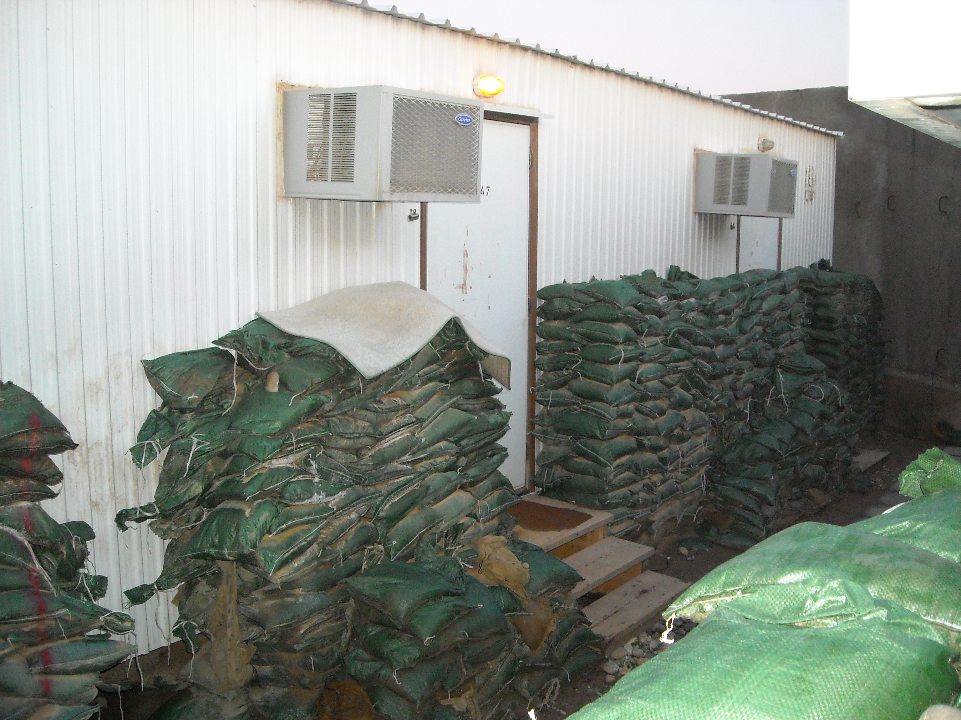 living "pods" (as they were called) in H-6 (one of the AF/Army housing areas), Joint Base Balad 2009